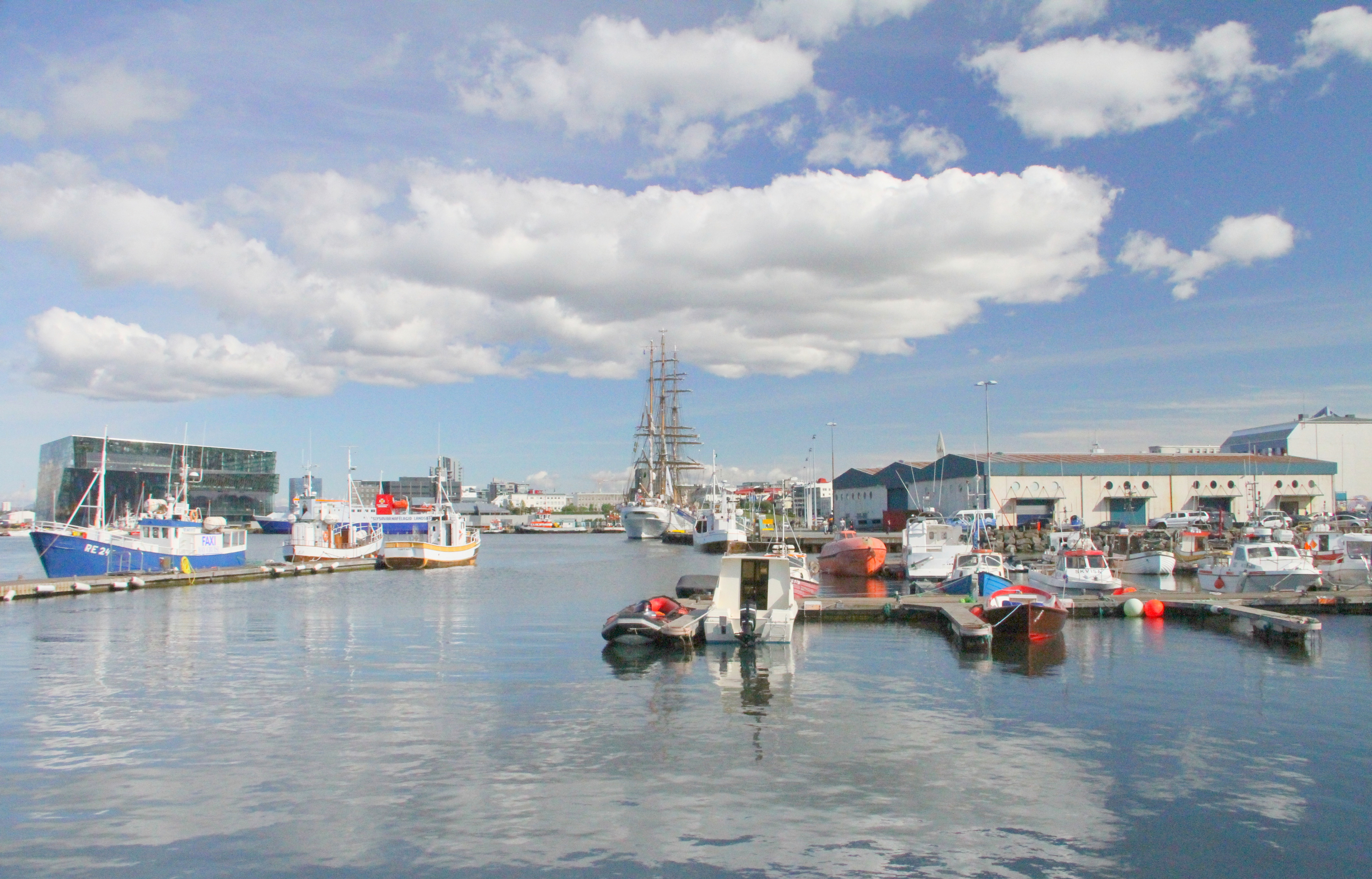 The so-called Old Harbour of Reykjavik is the first lasting harbour of the town. It was constructed between 1913 and 1917 on the cove Reykjavik, after which the farm of the first settler and later the town were named. The Danish monopoly trading was moved from the spit of land called Orfirisey in 1780 to Reykjavik. During the 19th century the merchants constructed their own short and small piers as extensions from the warehouses into the cove. The municipal authorities did not participate until after 1850, when harbour pilots were engaged to ensure the safety of the seafaring people. A signal mark was built by the Akurey-reef in 1856 and the first tariff of the harbour was issued. A Danish engineer was hired to evaluate the harbour conditions and make suggestions for the harbour construction. The budget of the town was too low to accommodate the expenses of the project at the time and only minor improvements were carried out. After 1860 the municipality contracted the common use of the piers built and owned by the merchants and paid lease. In 1884 the municipality constructed the so-called Stone Pier.